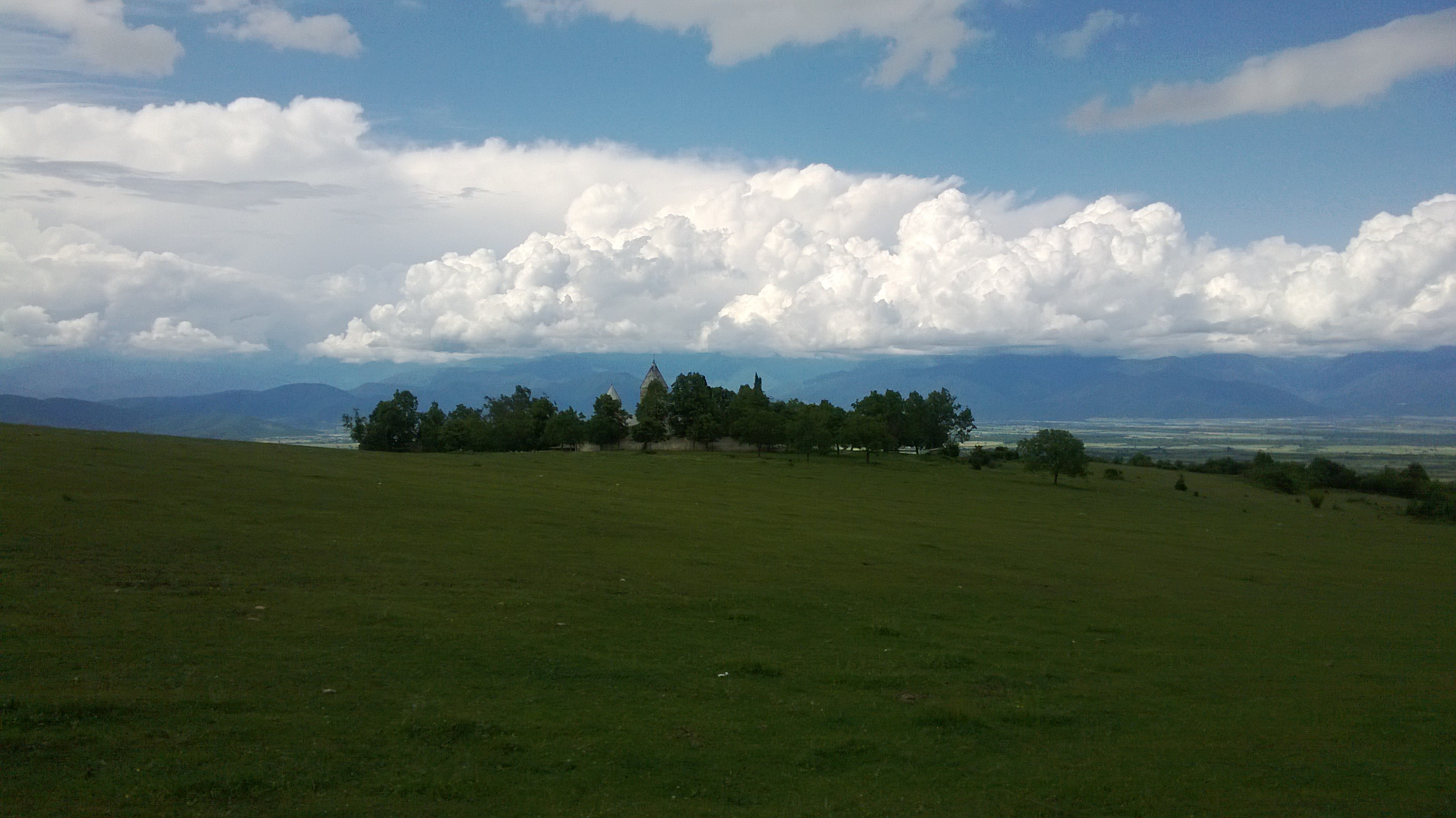 Saint George church (white giorgi), Georgia